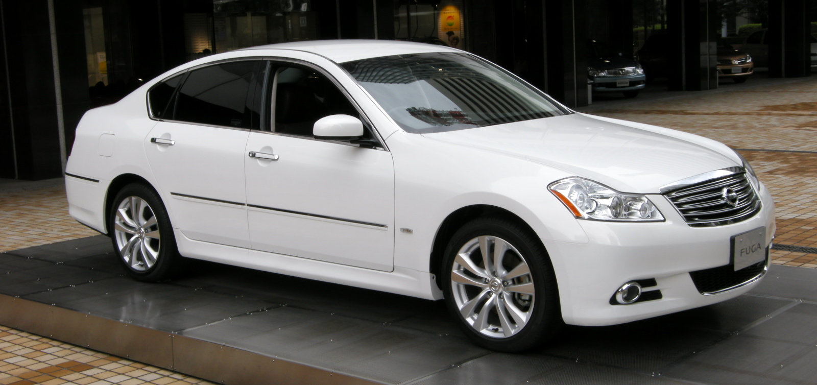 2007 Nissan Fuga 450GT photographed in Nissan Gallery (Chuo, Tokyo)